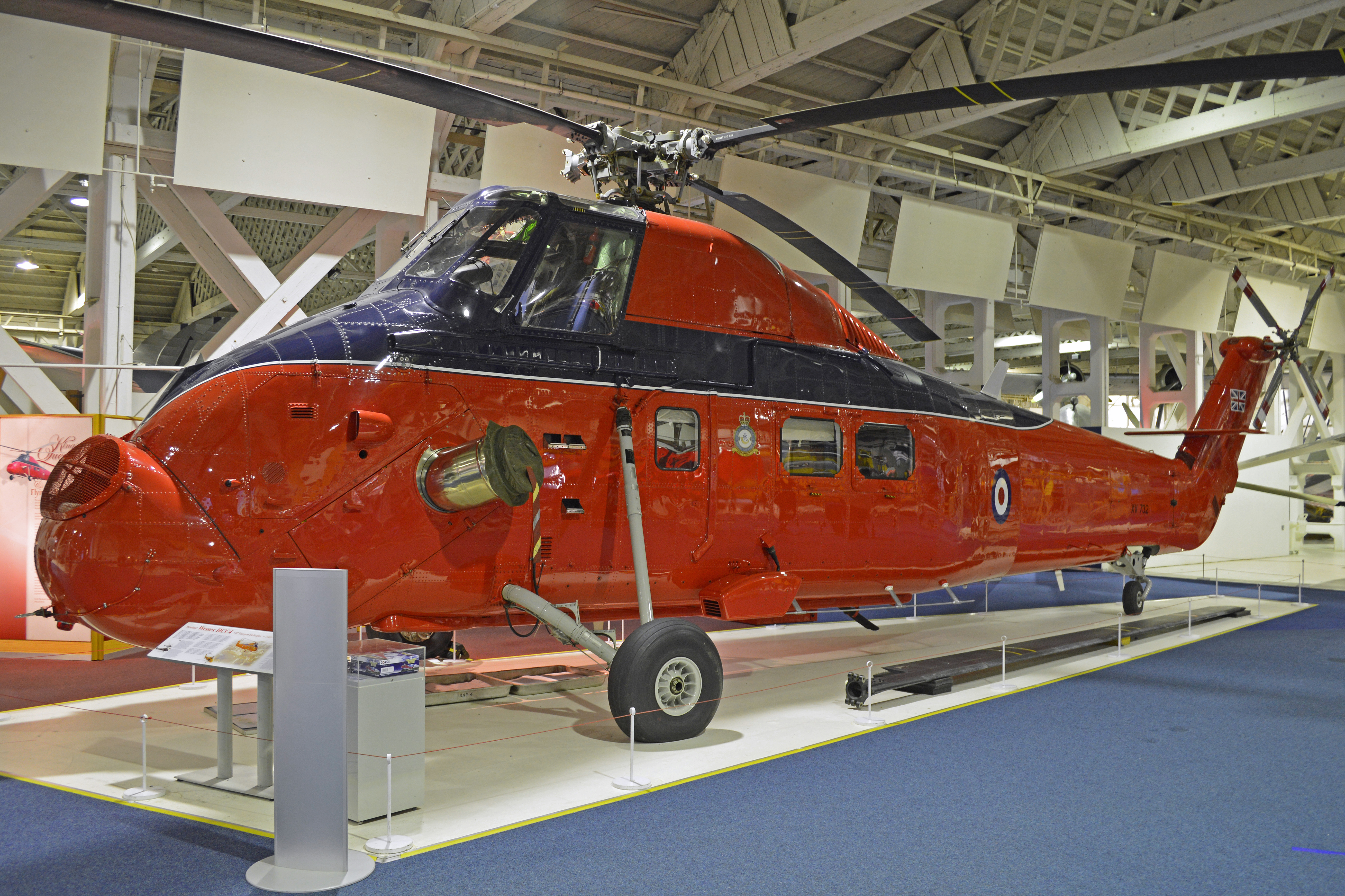 c/n WA.627. Built 1969 as the second to last Wessex produced. Fitted out as a VIP aircraft and joined the Queen’s Flight at RAF Benson in June that year. She flew in that role until retirement in March 1998 and was then stored at RAF Shawbury until donated to the RAF Museum in 2002 and moving to Hendon in March that year. She remains on display in the Historic Main Hangars, RAF Museum, Hendon, London, UK. 28th May 2016